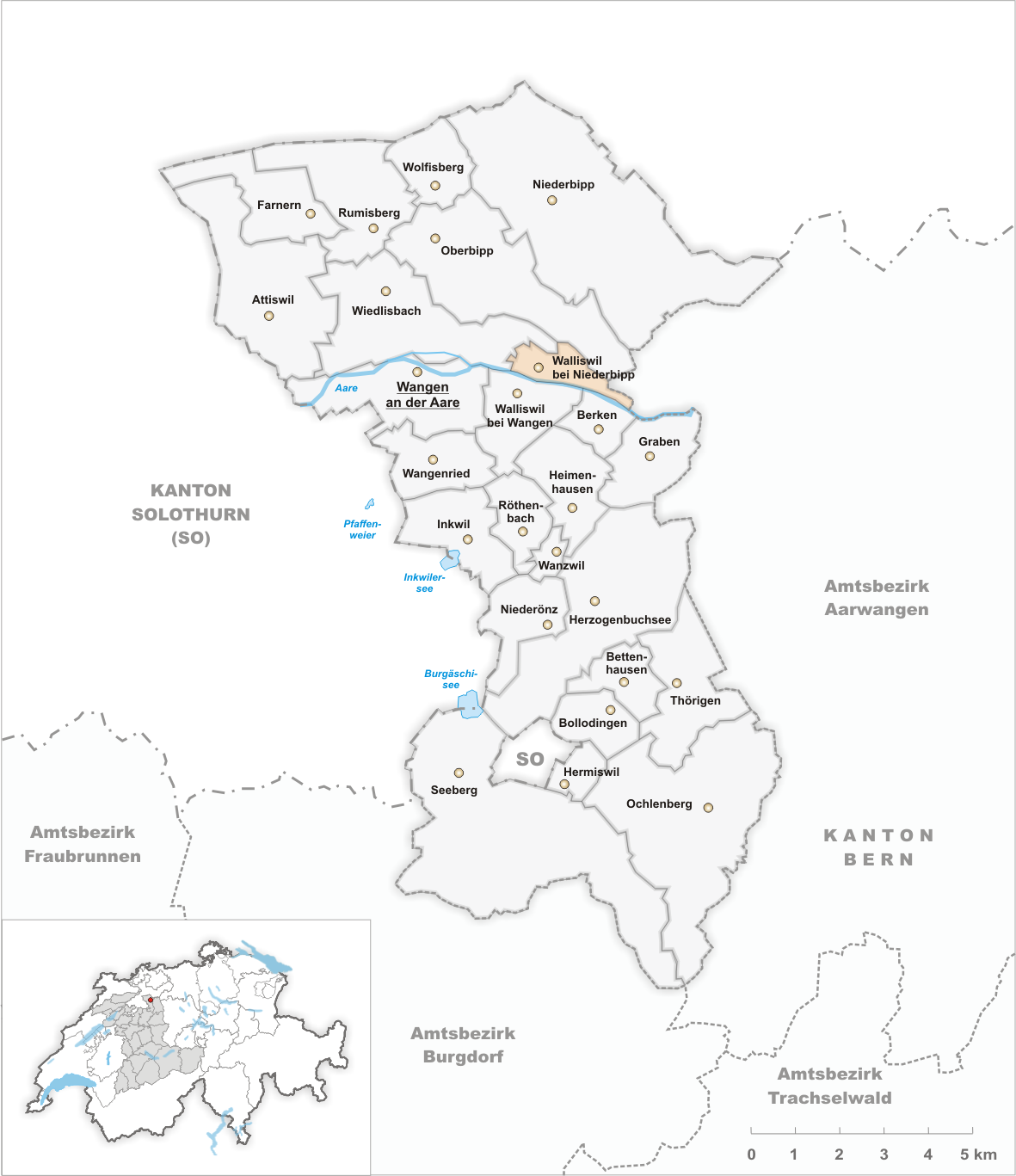 Municipality Walliswil bei Niederbipp